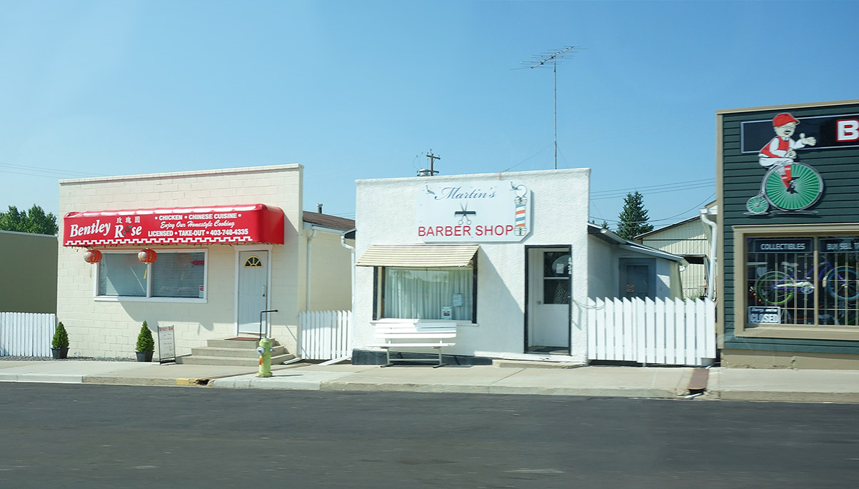 Storefronts in Bentley, Alberta, Canada